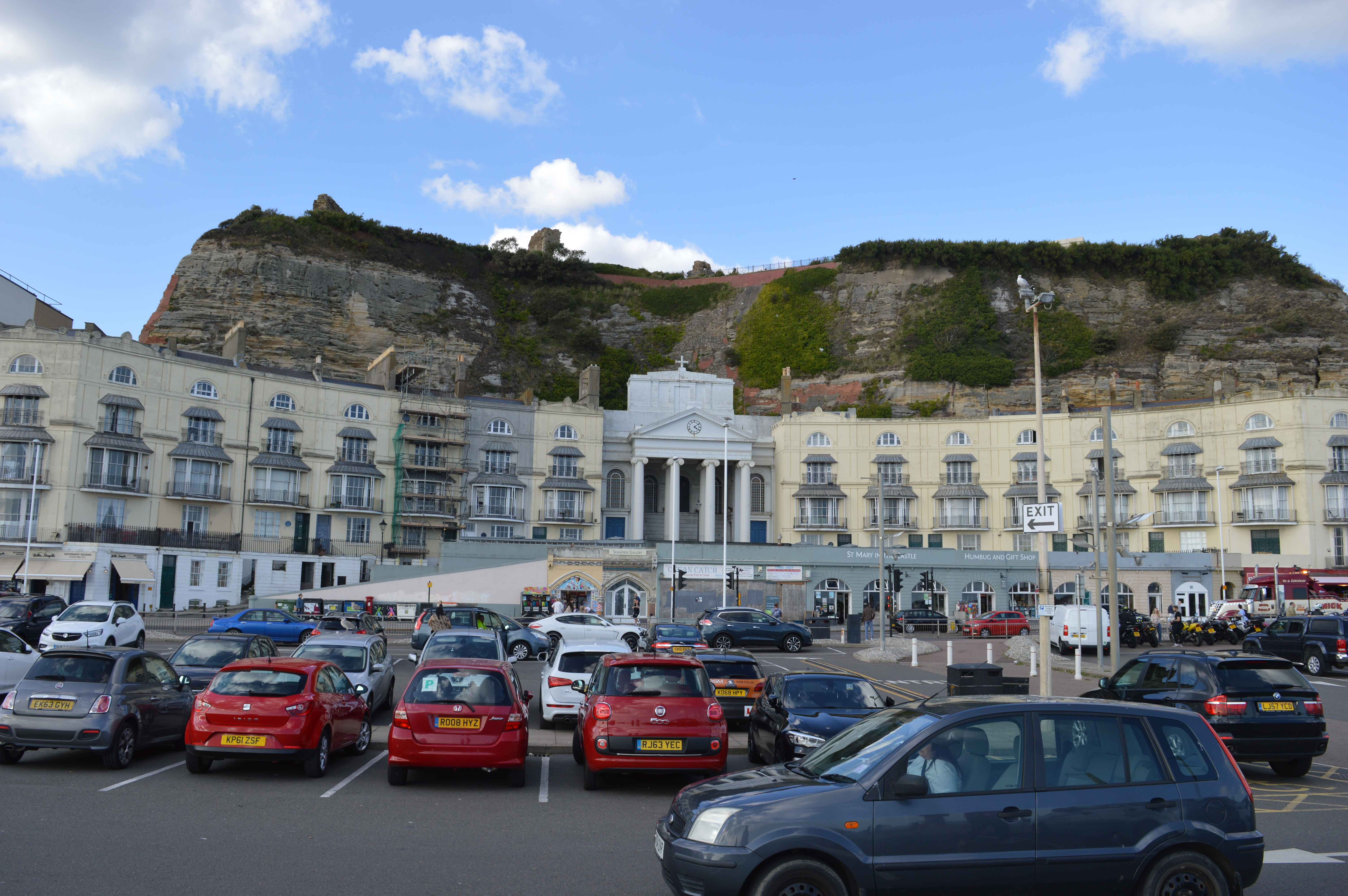 Pelham Arcade Wikidata has entry Q17555452 with data related to this item.